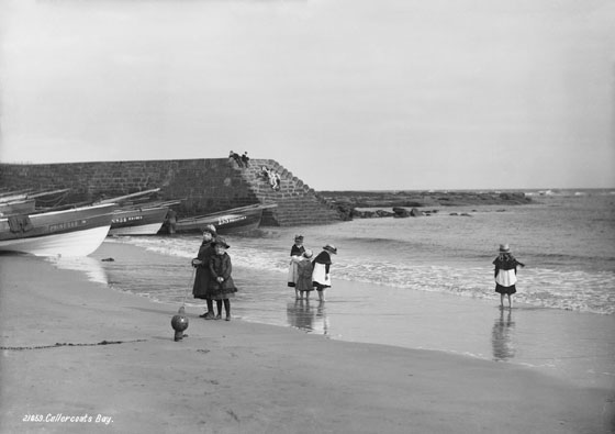 Reproduction ID: G2417 Maker: Frith & Co. Date: About 1888 Materials: silver halide: gelatine